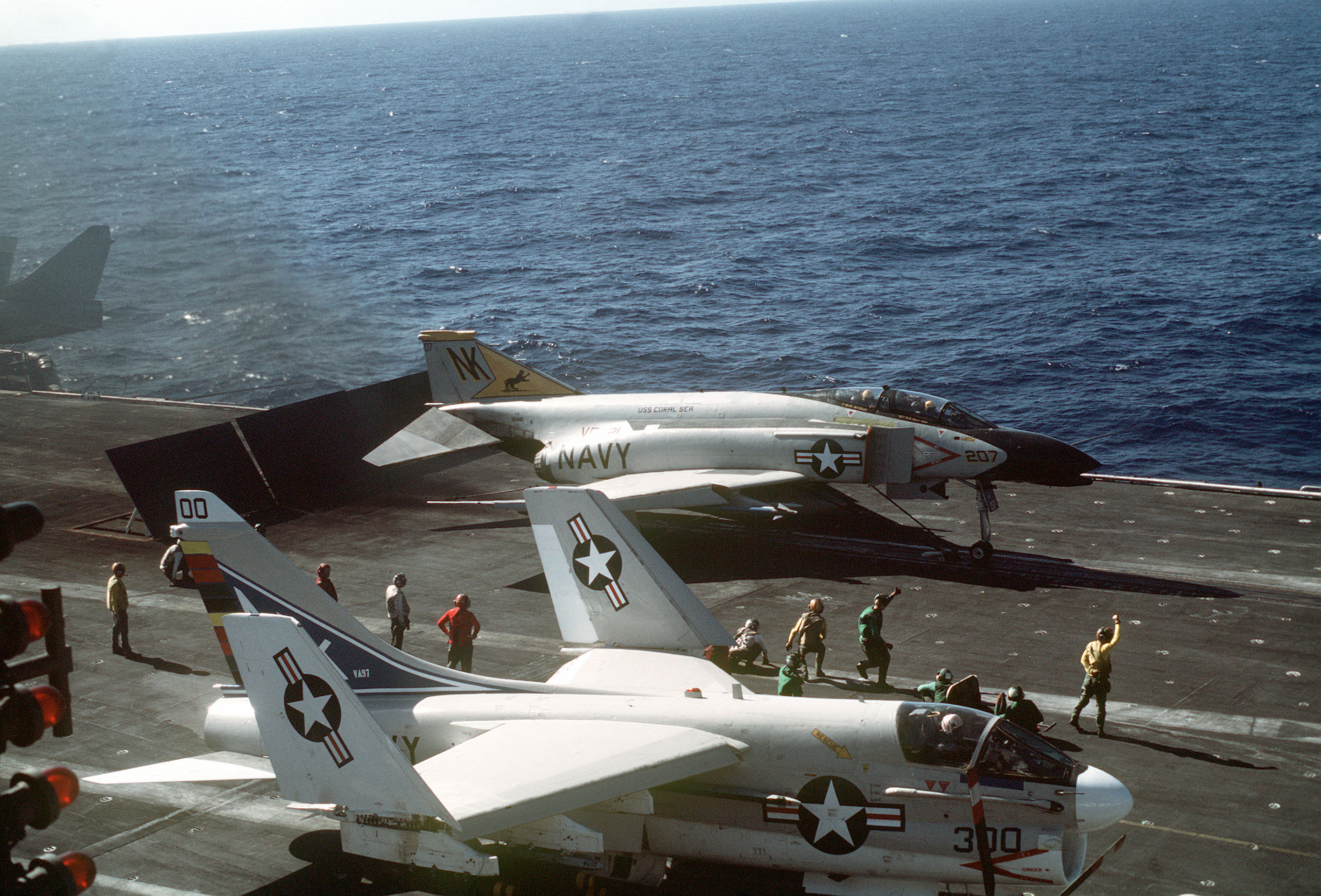 Caption provided by source:An overhead right side view of an F-4N Phantom II aircraft from Fighter Squadron 21 (VF-21) Free Lancers and an A-7E Corsair II aircraft from Attack Squadron 97 (VA-97) Warhawks during preflight preparations on the flight deck of the aircraft carrier USS Coral Sea (CV-43).Other Notes not from source: The F-4N is BuNo. 151461. The A-7E (probably BuNo. 156872) is also the personalized aircraft of the Commander Air Group (CAG) of Carrier Air Wing Fourteen (CVW-14) at that time. 1981/82 Coral Sea was deployed to the Mediterranean and the Indian Ocean.